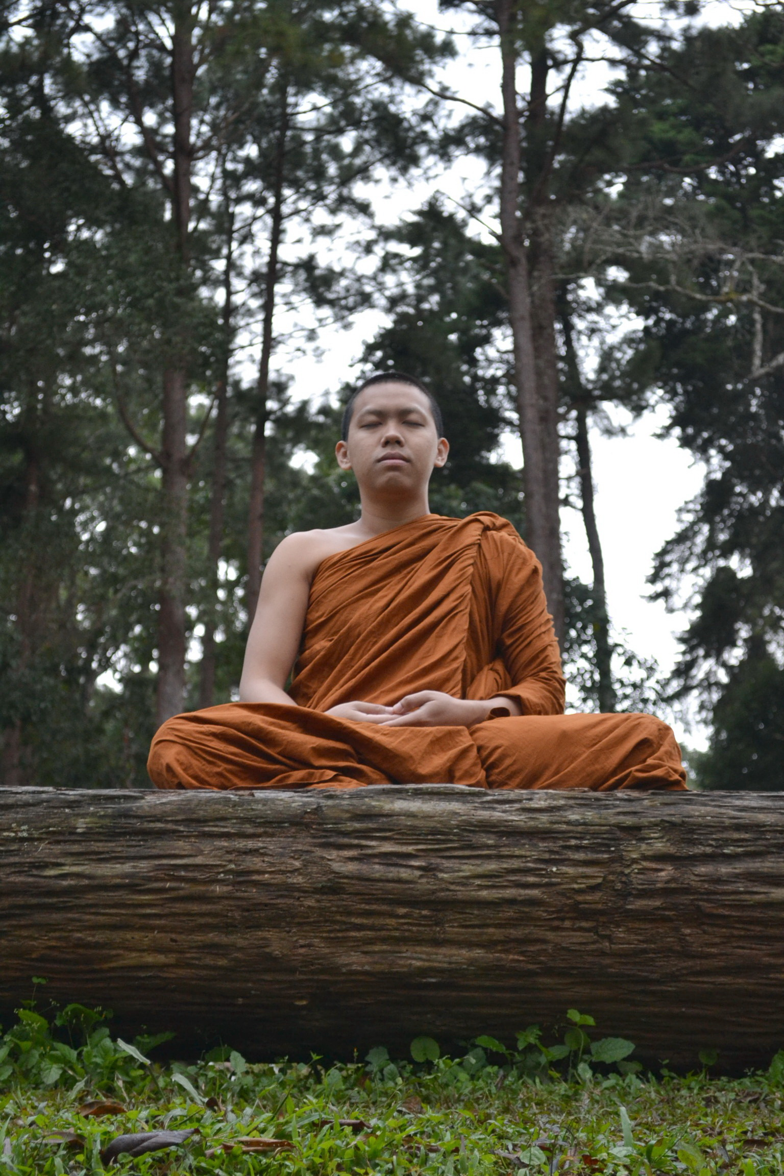 Theravada Buddhist monk Location: Doi Suthep-Pui National Park